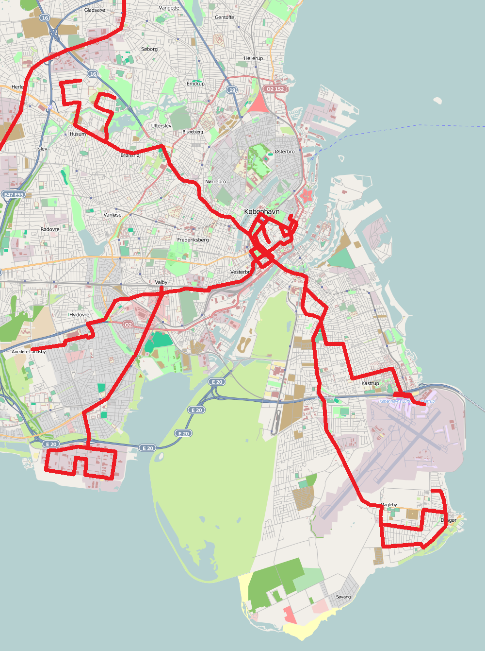 Map of Copenhagen with hurtigbus (fast bus) lines as of 1989 in red.